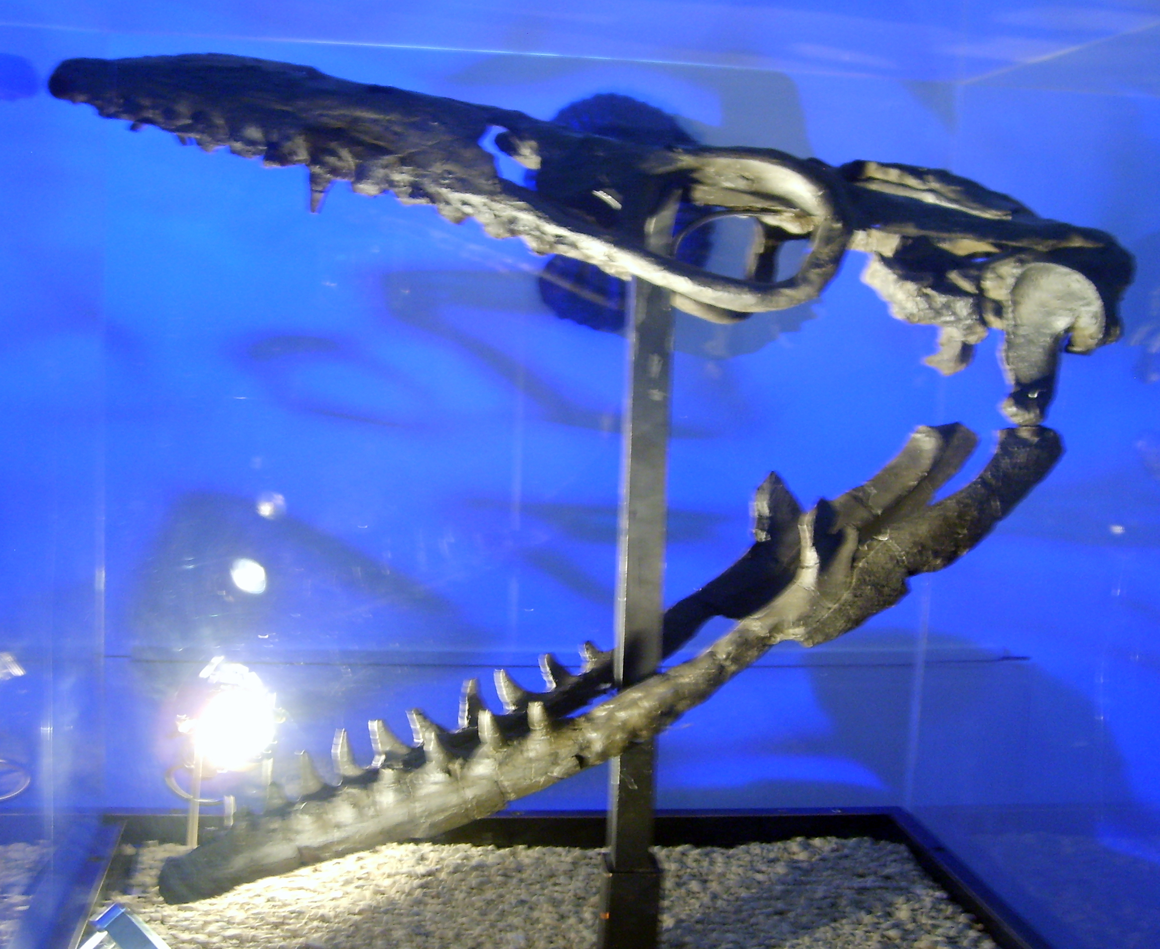 Taniwhasaurus antarcticus (labelled as Lakumasaurus) skull cast, Copenhagen